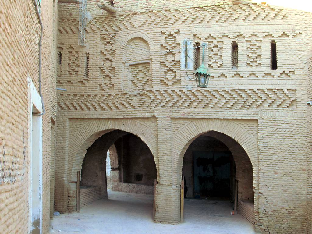 The entrance to the Tozeur medina in southern Tunisia features the patterned relief brickwork characteristic of the 15th century Aouled el-Hadef quarter.